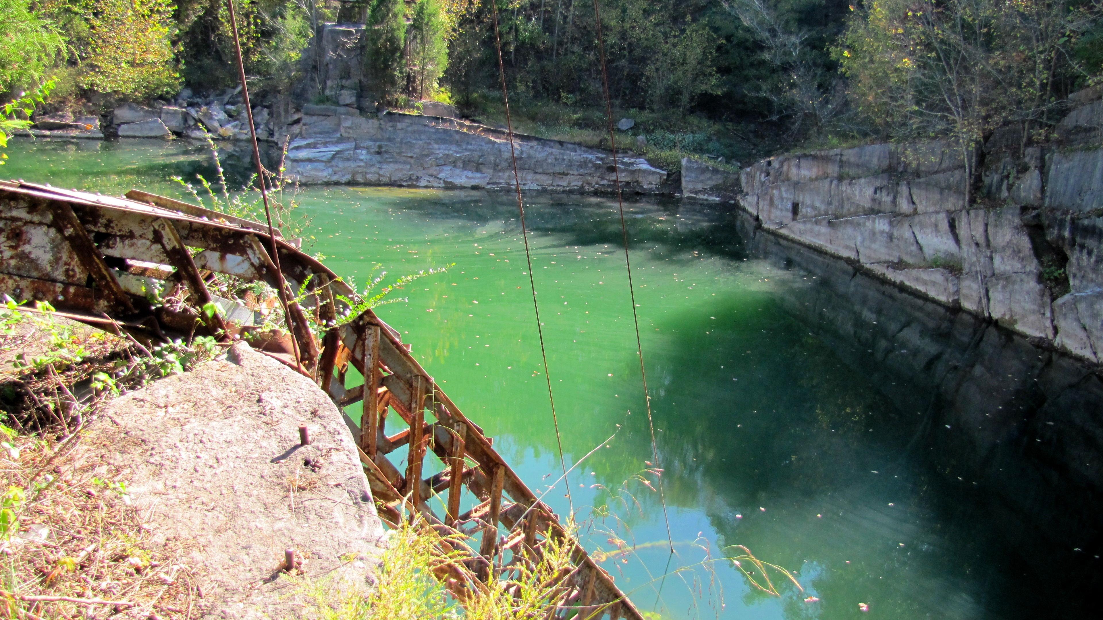 The abandoned John J. Craig Company quarry near Friendsville, Tennessee, USA. Tennessee marble was quarried here in the late-19th and early-20th centuries.